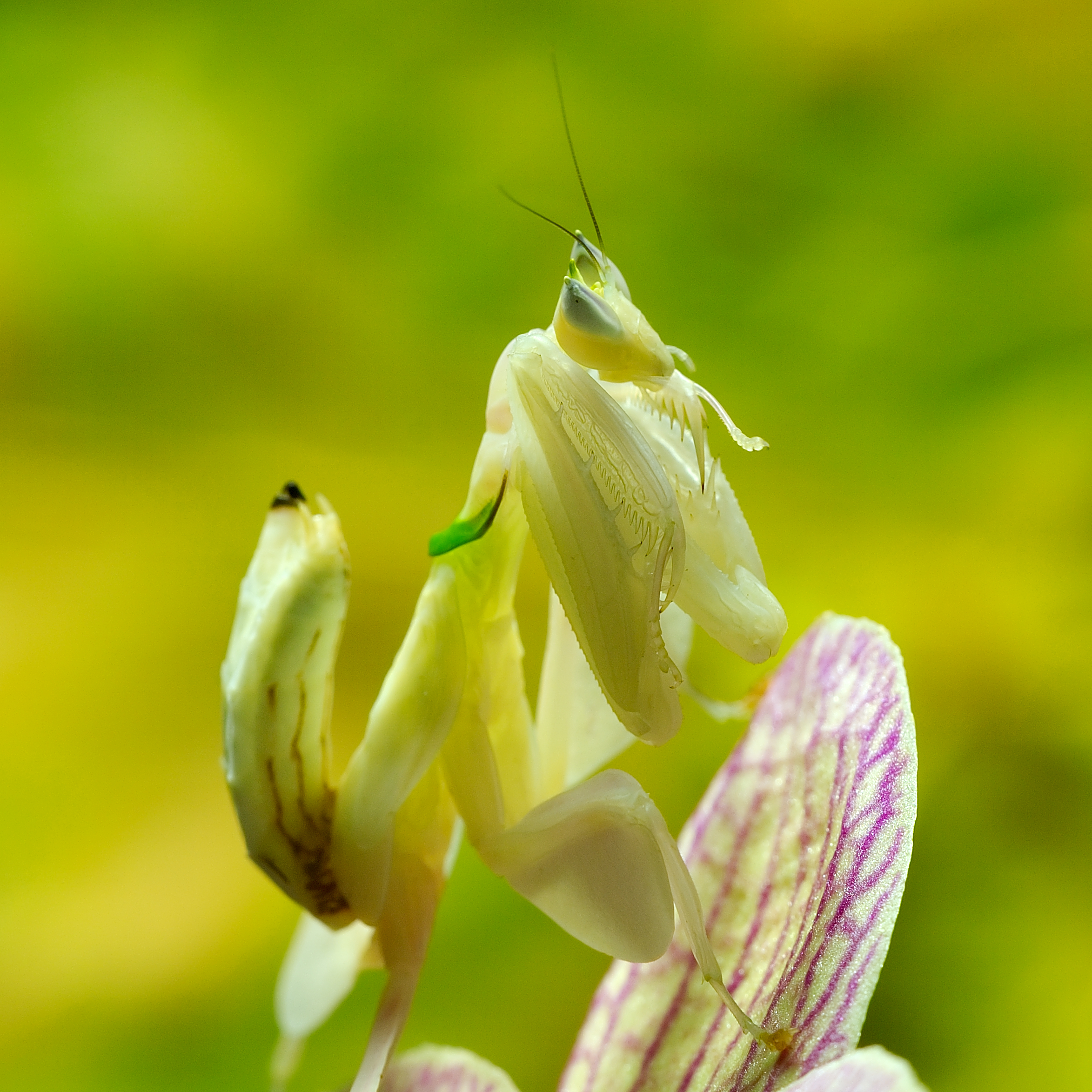 Hymenopus coronatus orchid mantis.